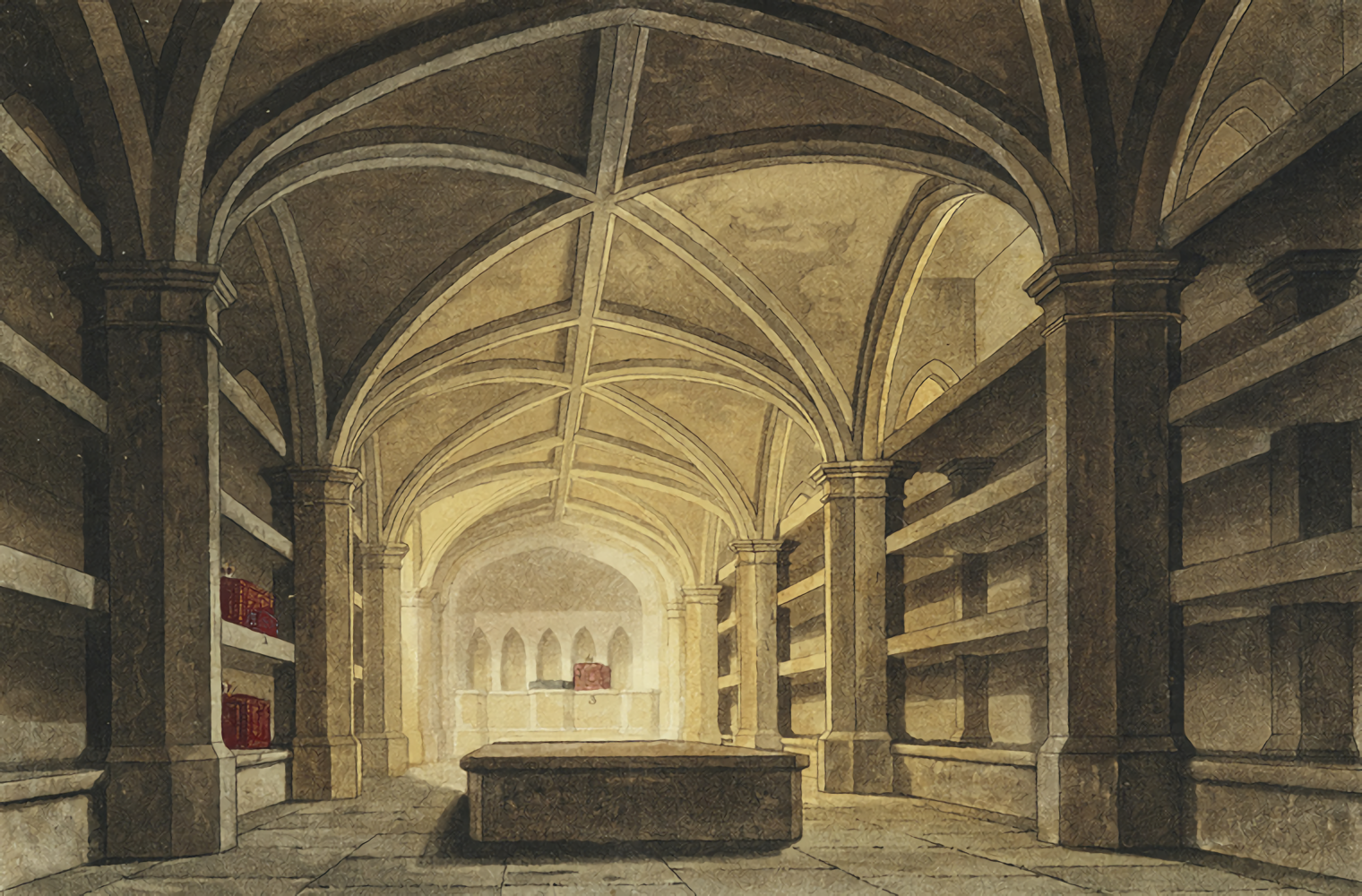 Vault of St. George's Chapel